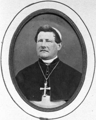 Franz Adolf Namszanowski (1820-1900), zurückgetreten 1873, Preussischer Armeebischof